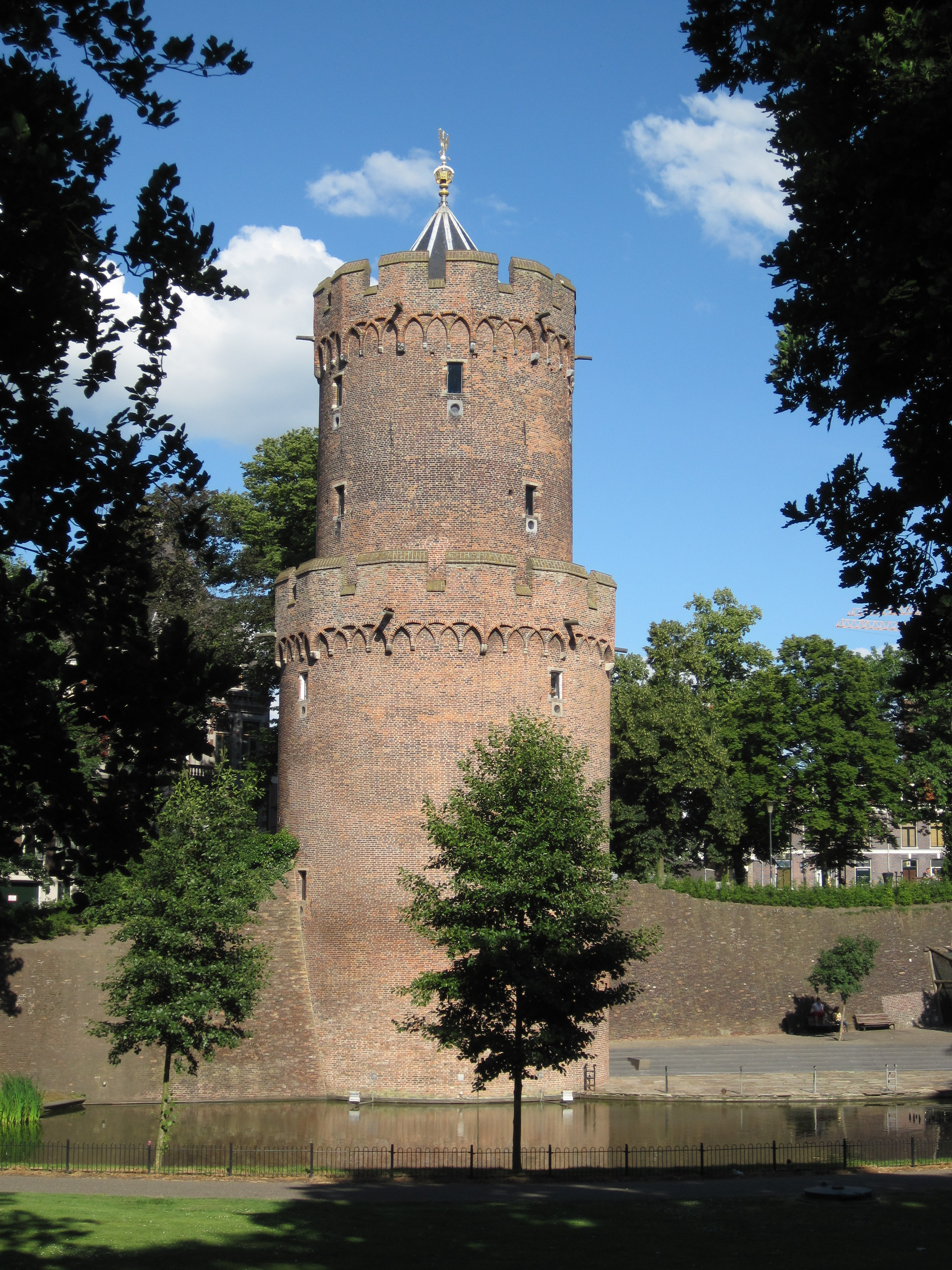 Kruittoren (Powder Tower) Kronenburgerpark, Nijmegen, The Netherlands